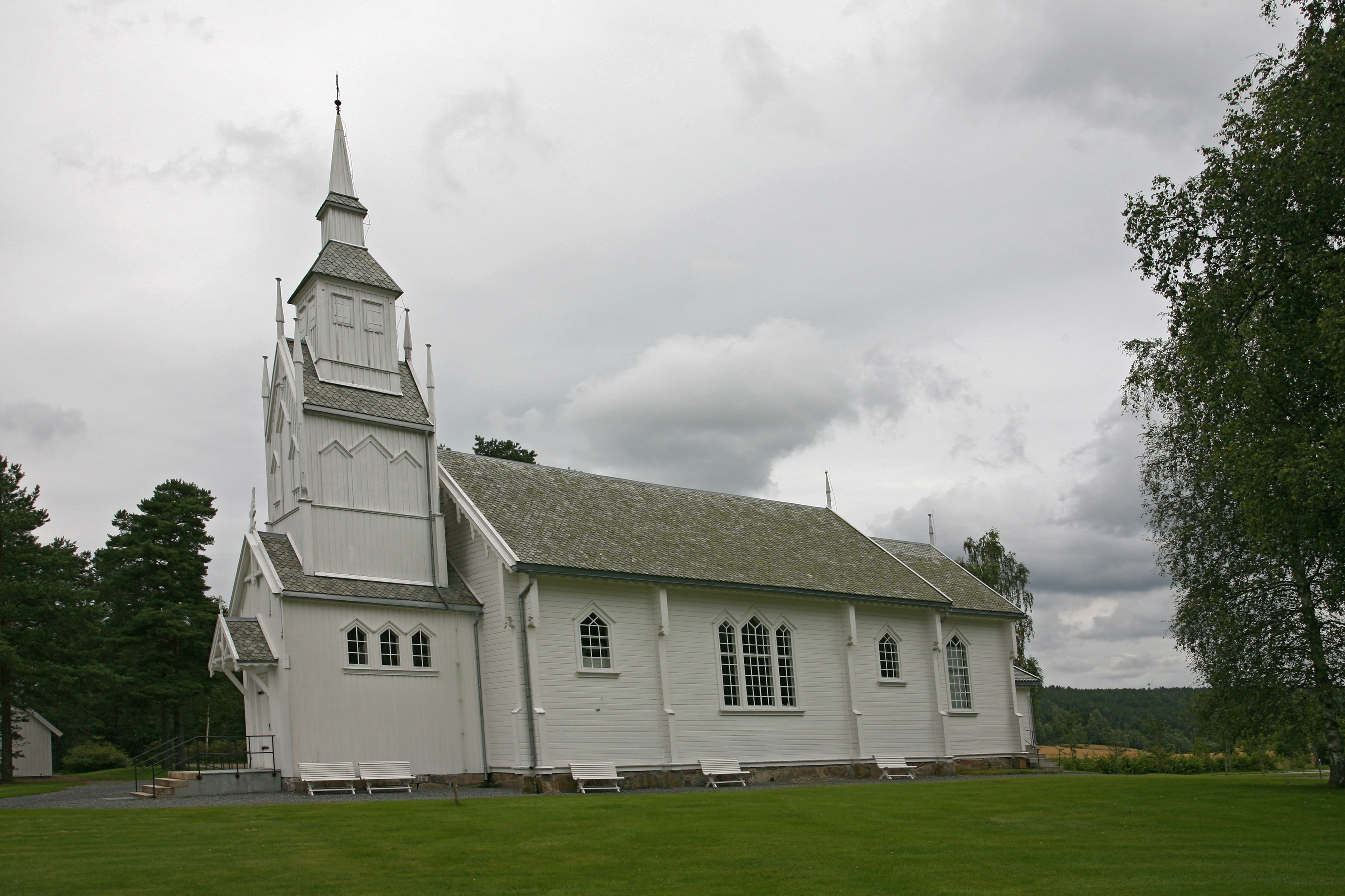 Picture of Svinndal kirke (Østfold - Norway)